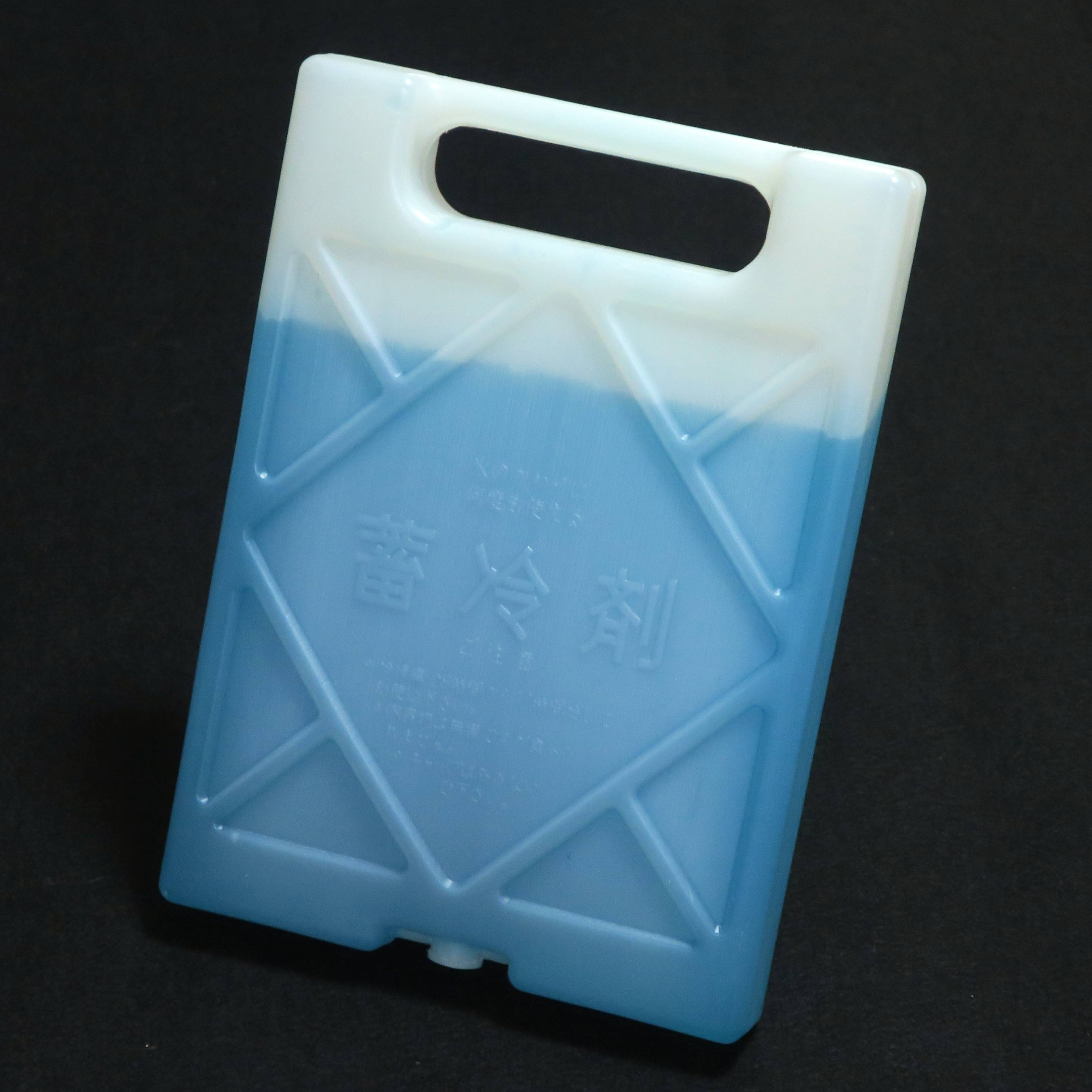 Koga Chemical Mfg (KYK) ice pack 760g.